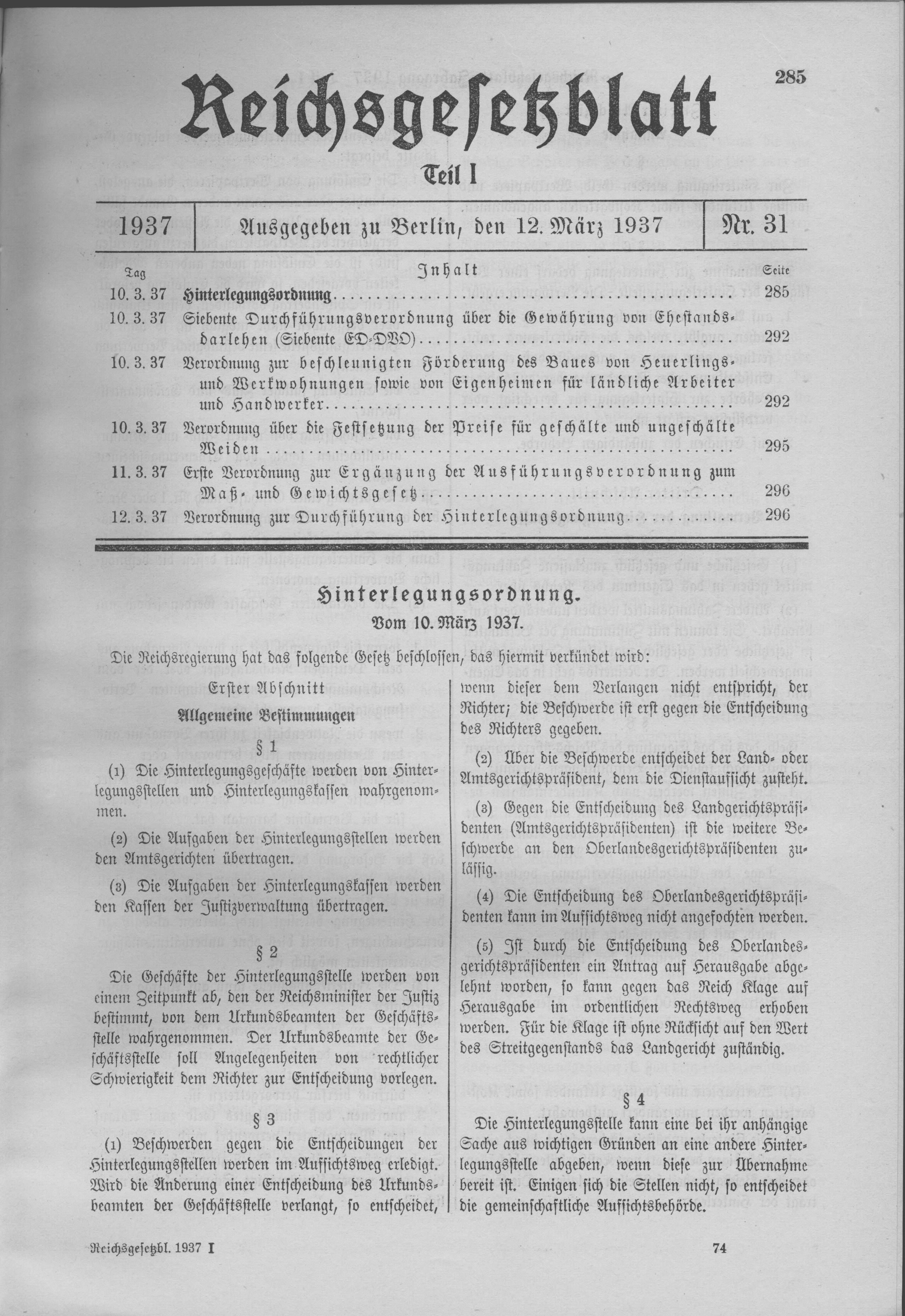 Scan from the Imperial Law Gazette of Germany, 1937, part 1